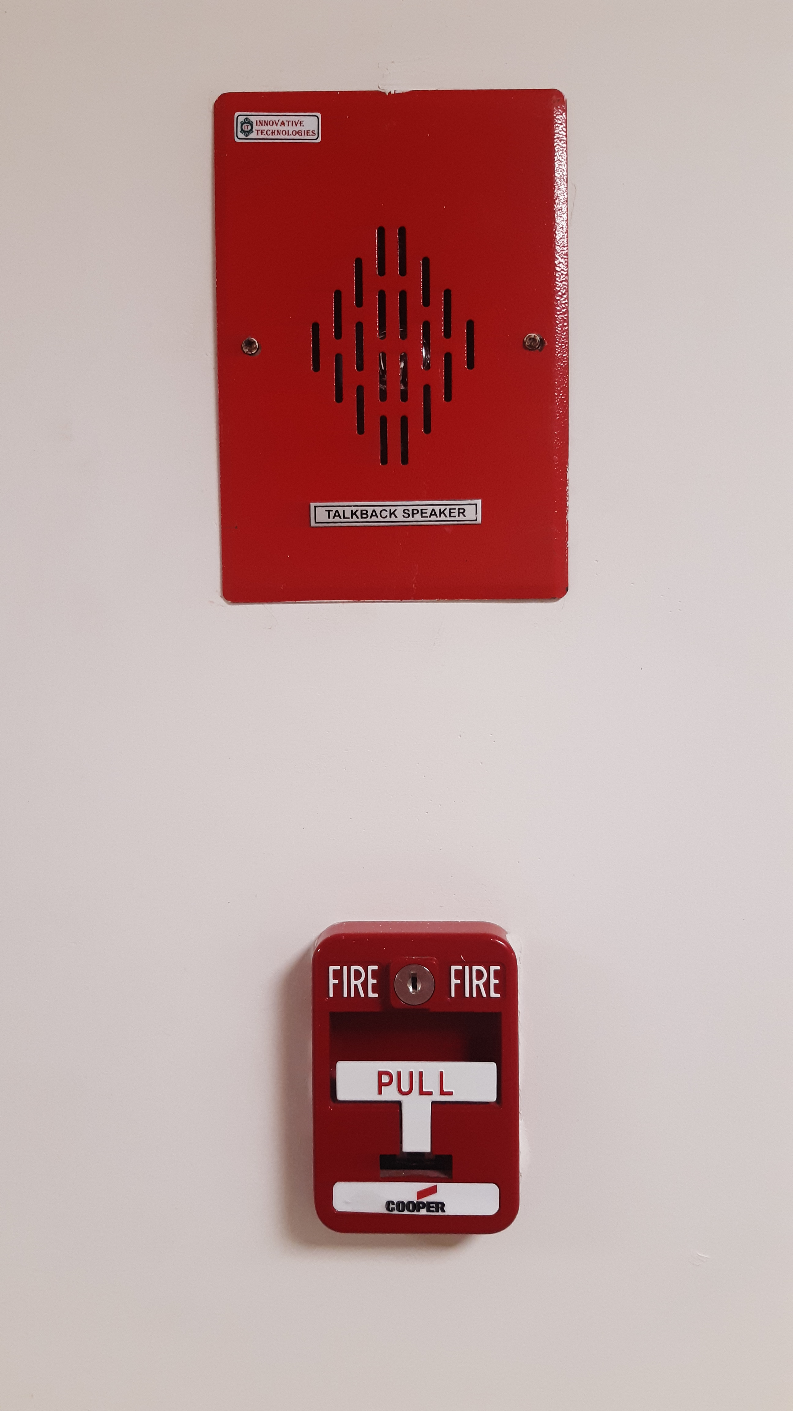 Fire Alarms are part of fixed fire fighting installations.